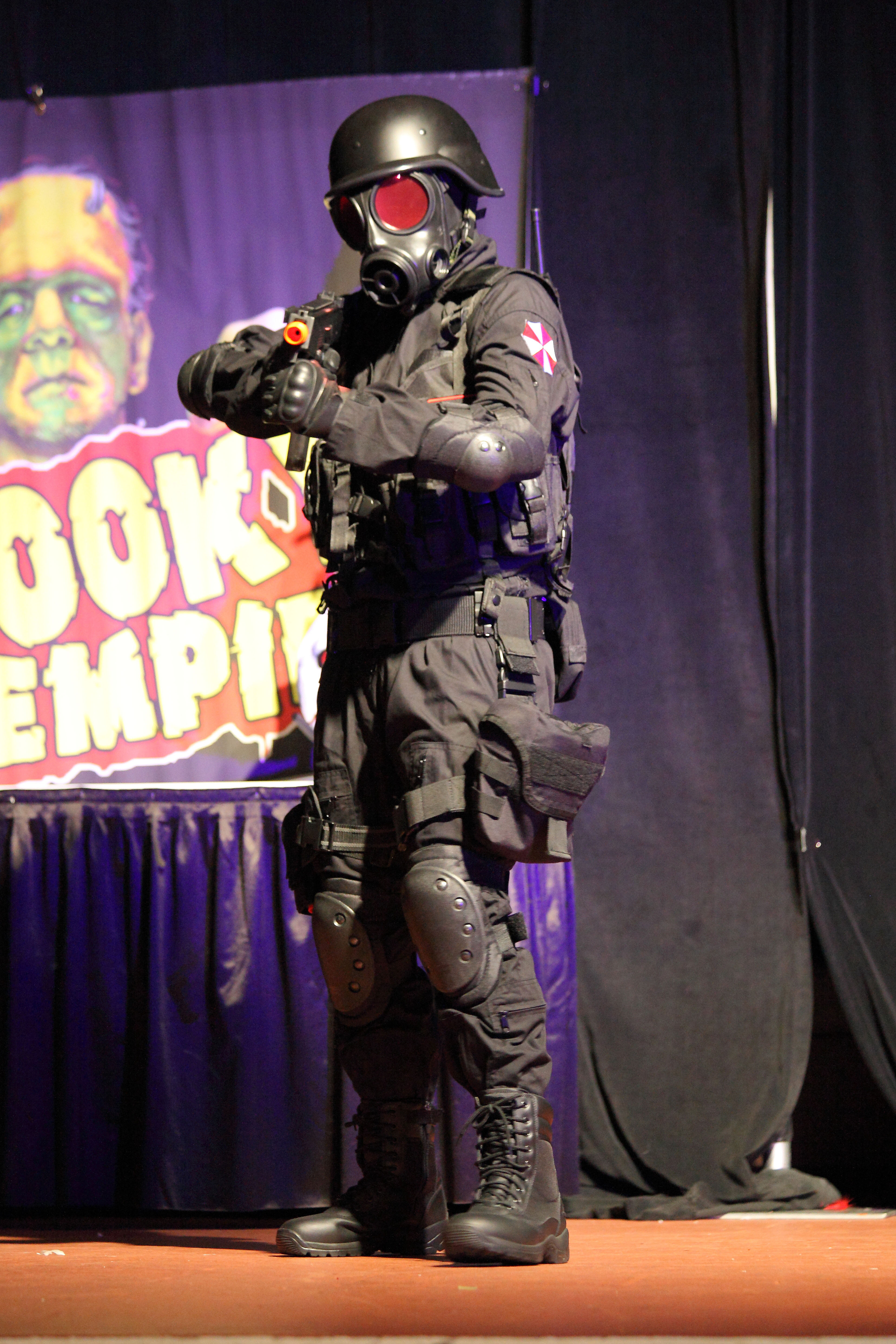 Umbrella Corporation-inspired outfit as seen during costume contest at Spooky Empire Ultimate Horror Weekend 2014 in Orlando, Florida.